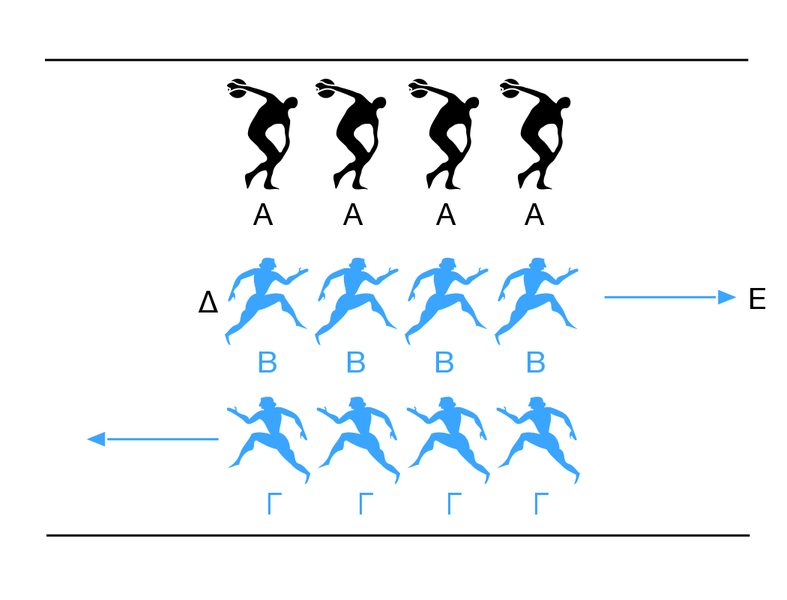 Zeno's paradoxes are a set of philosophical problems generally thought to have been devised by Greek philosopher Zeno of Elea (ca. 490–430 BC) to support Parmenides's doctrine that contrary to the evidence of one's senses, the belief in plurality and change is mistaken, and in particular that motion is nothing but an illusion. Source: Grandjean, Martin (2014) Henri Bergson et les paradoxes de Zénon : Achille battu par la tortue ?